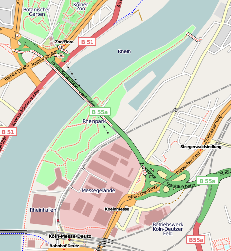 This map may be incomplete, and may contain errors. Don't rely solely on it for navigation.